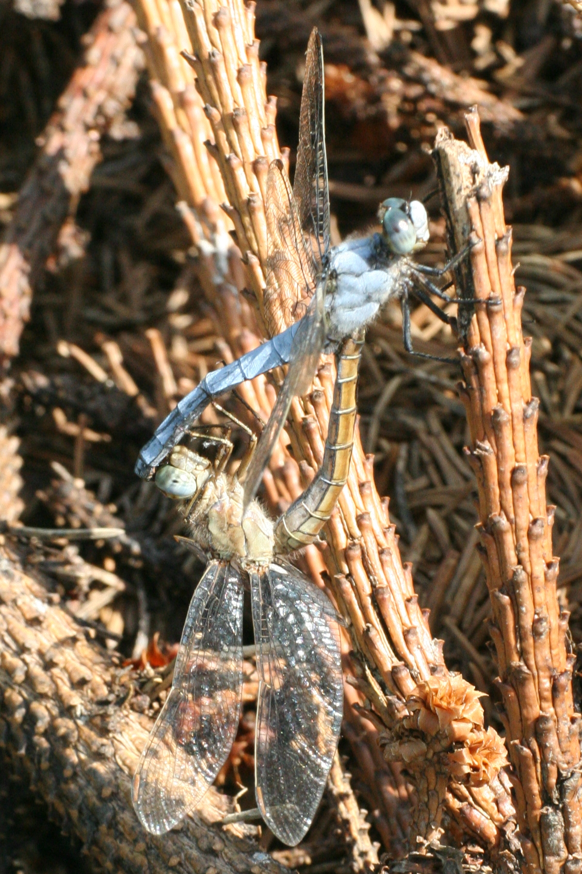 Couple of the Brown Skimmer dragonfly (Orthetrum brunneum), photographed in Weinsberg